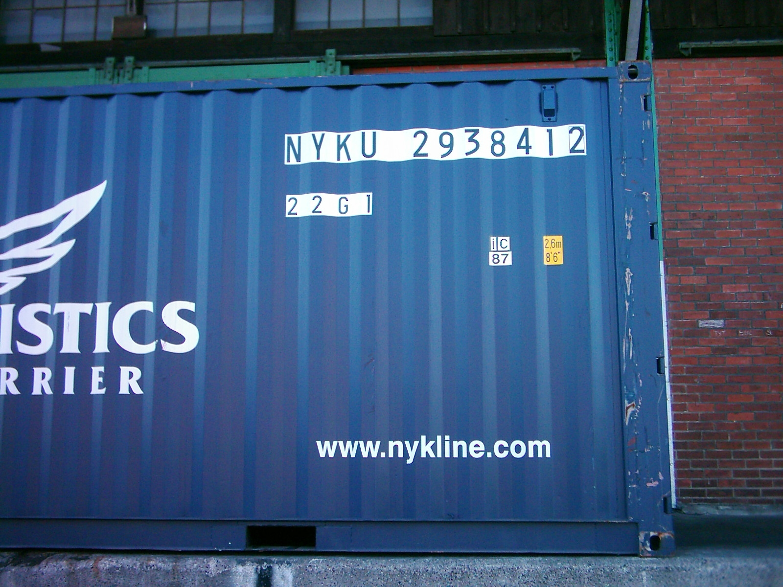 Detail of a container serial number.